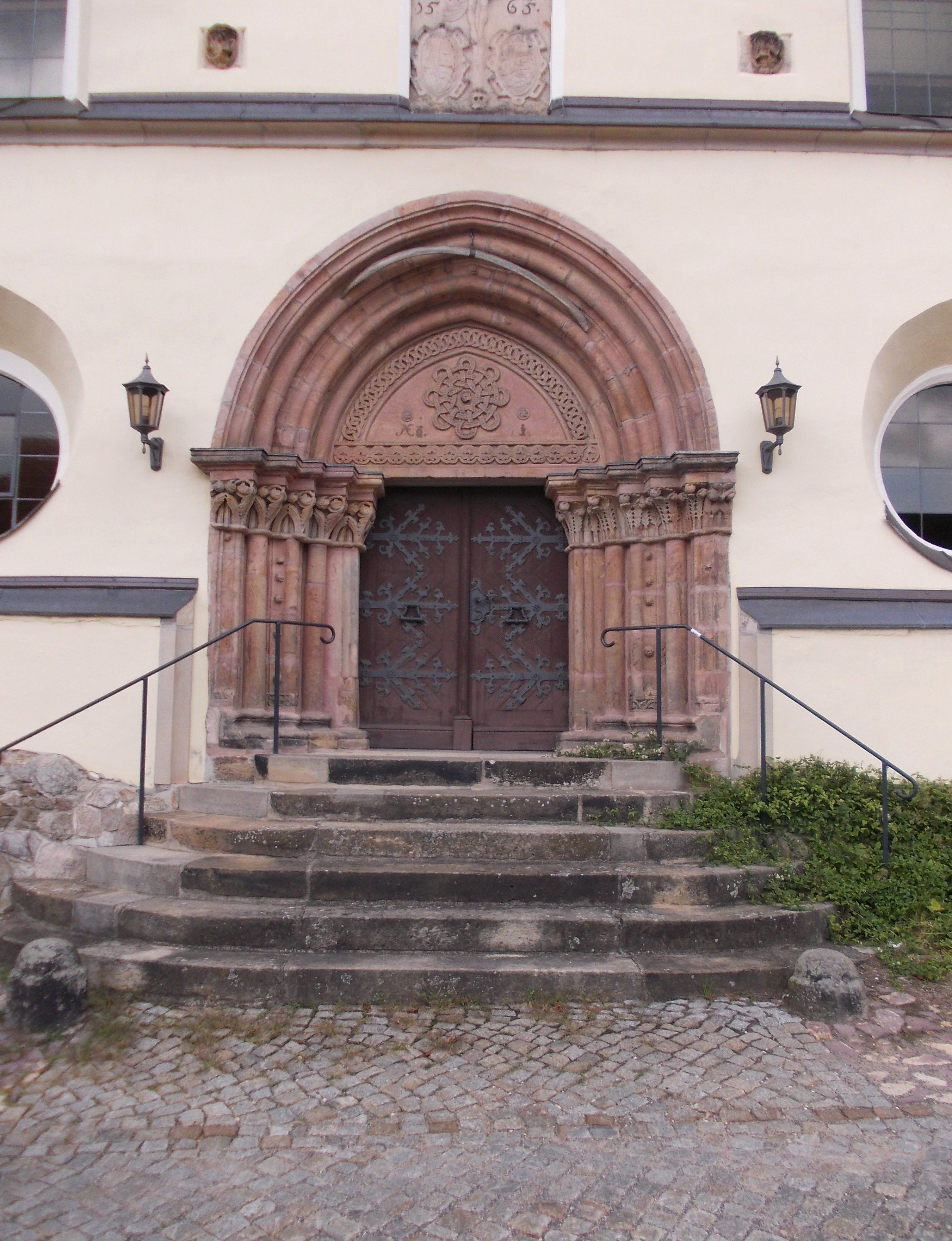 Nossen town church (Meissen district, Saxony), portal originally from Altzella monastery, with the rib of a whale